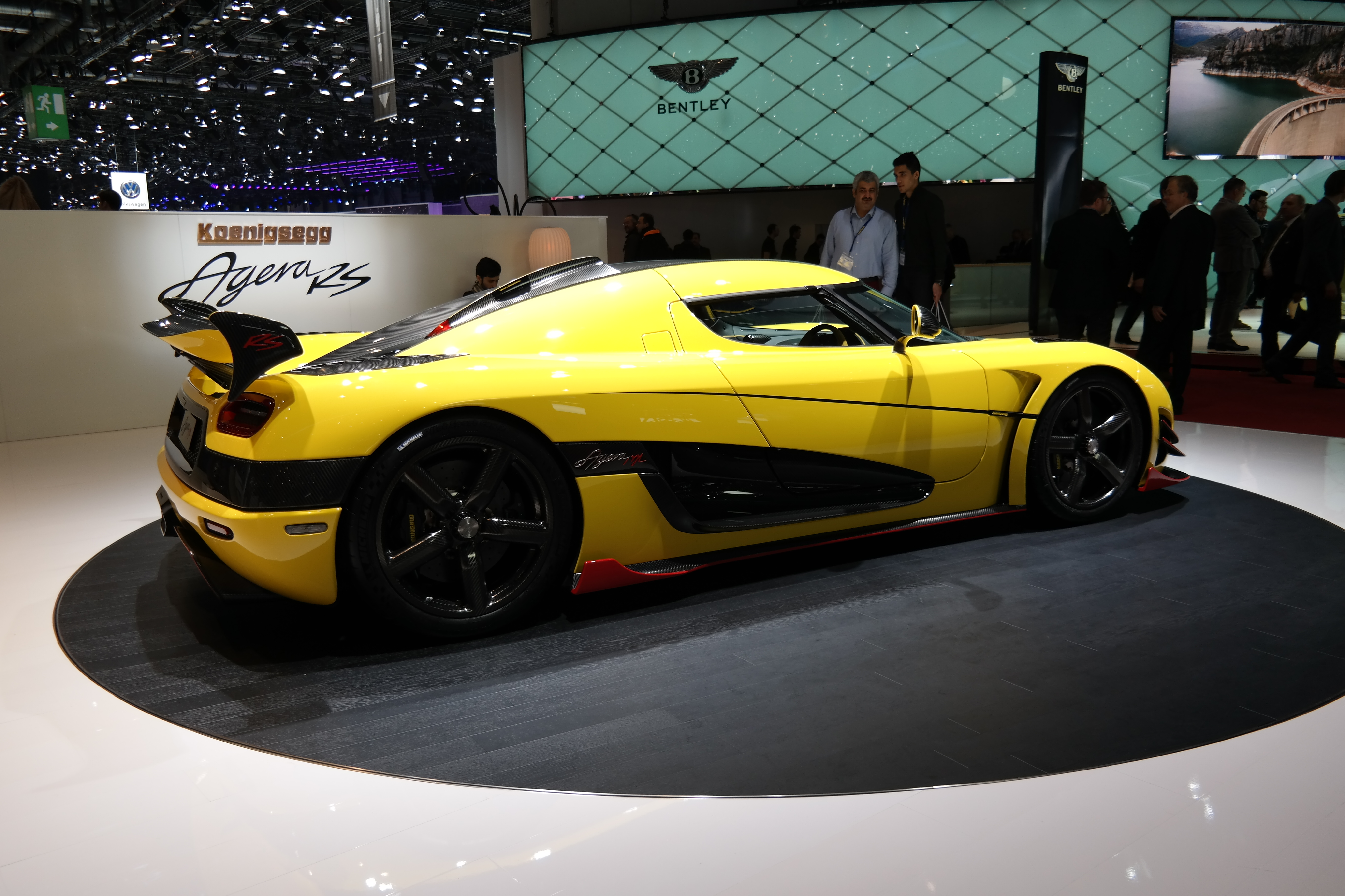 Geneva Motor Show 2016 (photo taken on the first press day)